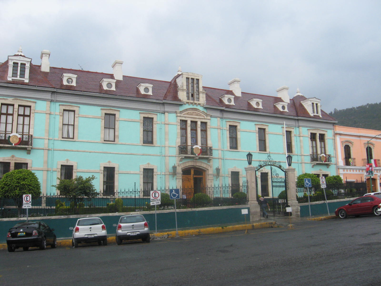 The Presidencia Municipal (Municipality Government Building) located on Calle de Hidalgo in the Centro of Pachuca, Mexico